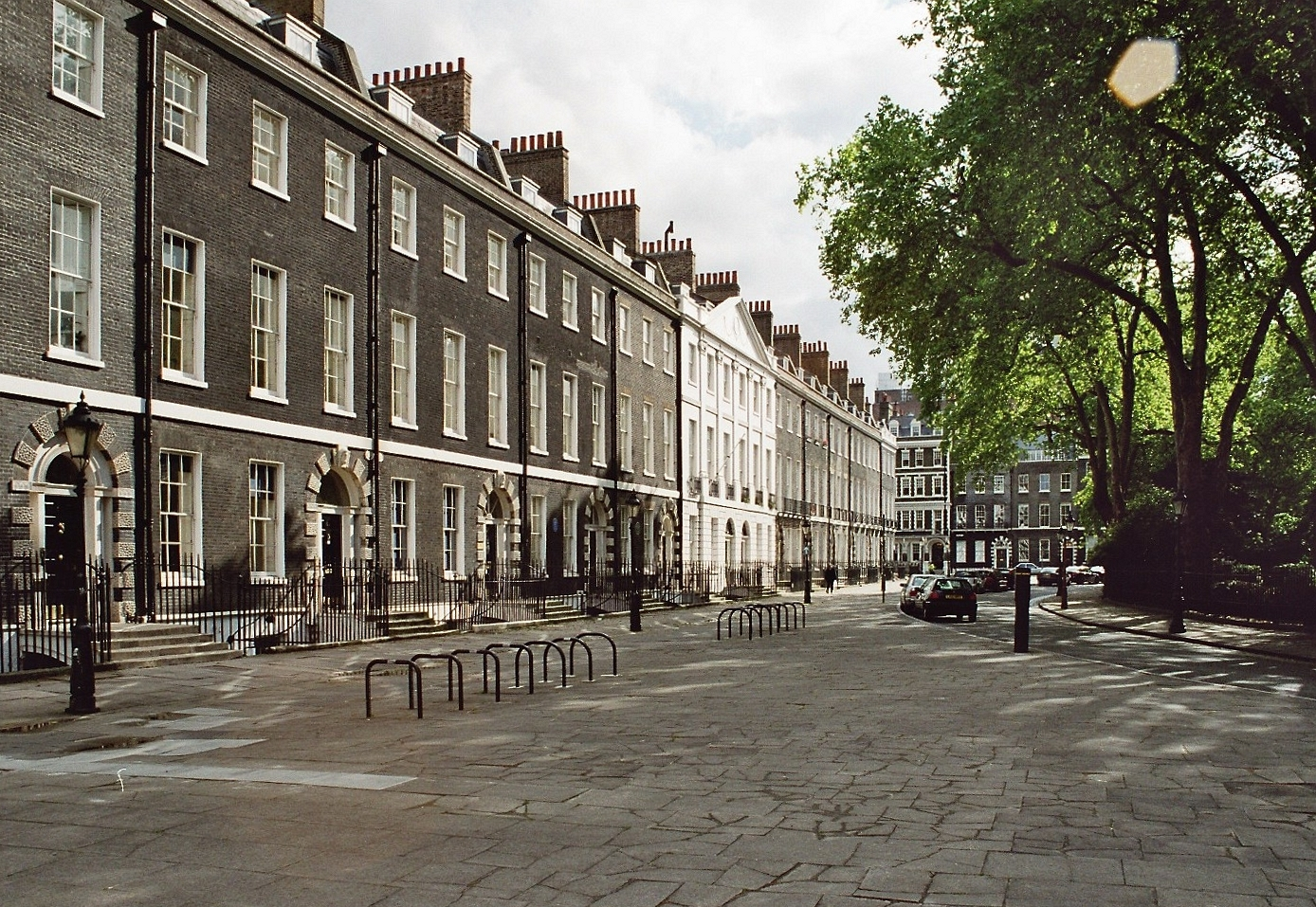 United Kingdom: London, Bedford Square